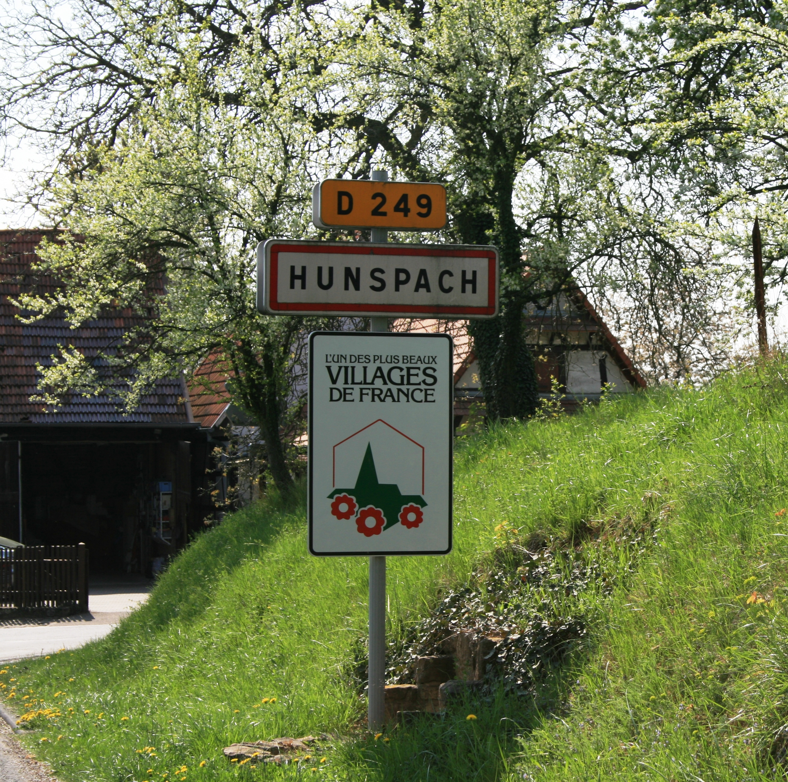 Town sign of Hunspach, Alsace